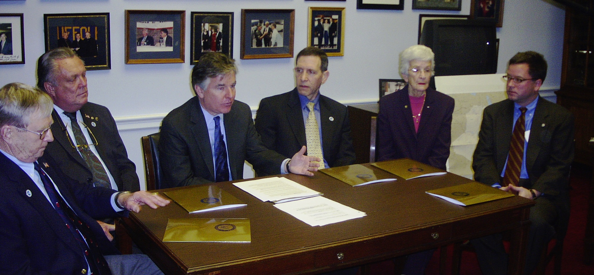 United States Congressman Marty Meehan was joined by retired Flag Officers to announce his legislation to repeal Don't ask, don't tell. From left to right: Brigadier General Keith Kerr, Brigadier General Virgil Richard, Congressman Meehan, Rear Admiral Alan Steinman, Brigadier General Evelyn Foote and C. Dixon Osburn, Executive Director of Servicemembers Legal Defense Network.